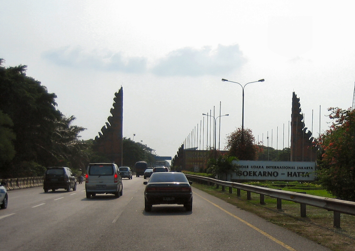 Sukarno Hatta international airport Entrance Jakarta - Indonesia Picture taken november 2006 by Hullie